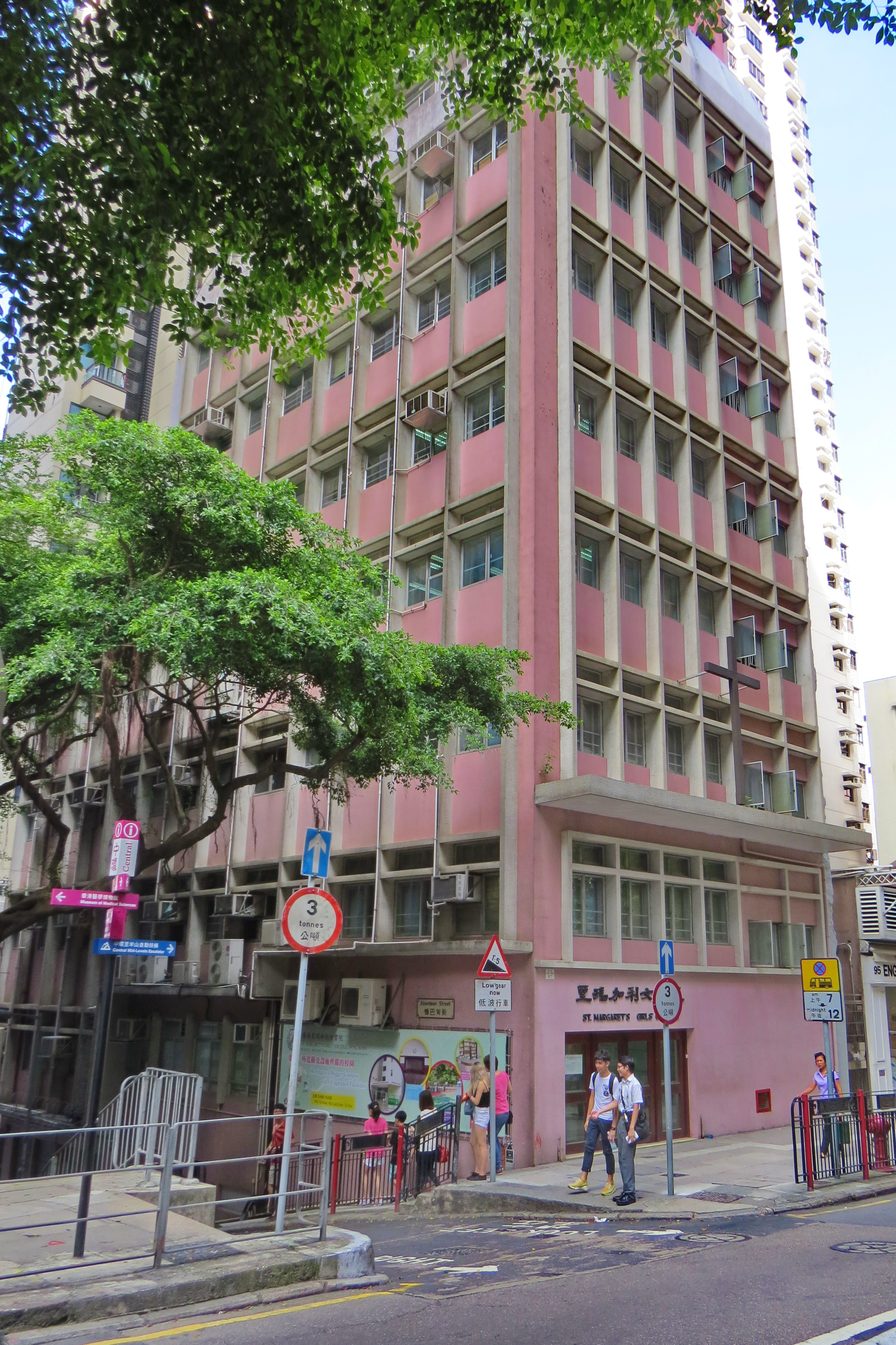 St. Margaret's Girls' College, 97 Caine Road, Hong Kong.